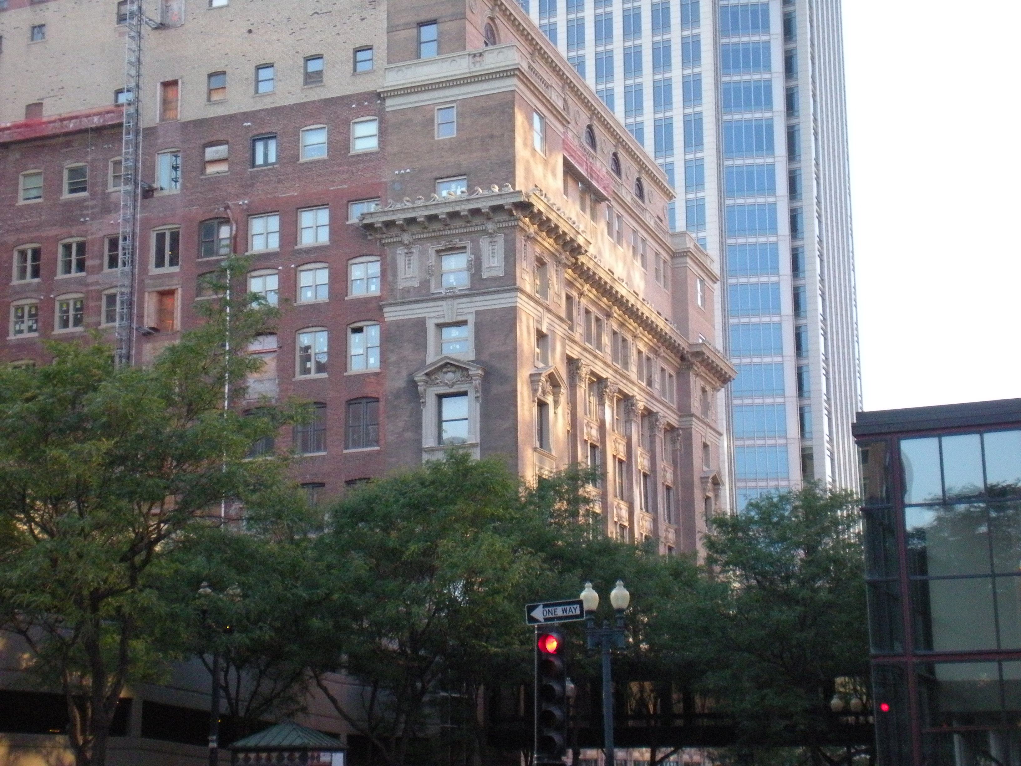 I took this photo of Brandeis in 2008